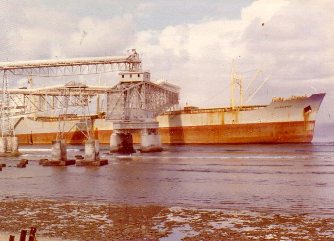 Phosphate being loaded onto ship in Nauru.